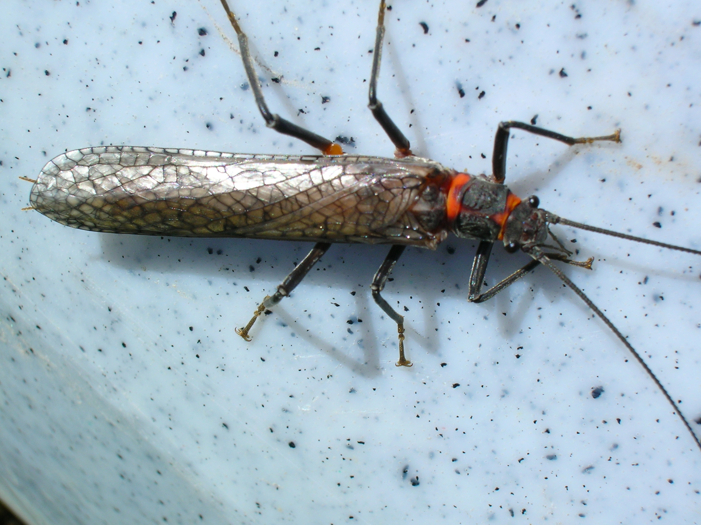 Pteronarcys californica adult; self-made; 3/2/08 Phinfish Multi-liscence GFDL, all CC-BY-SA